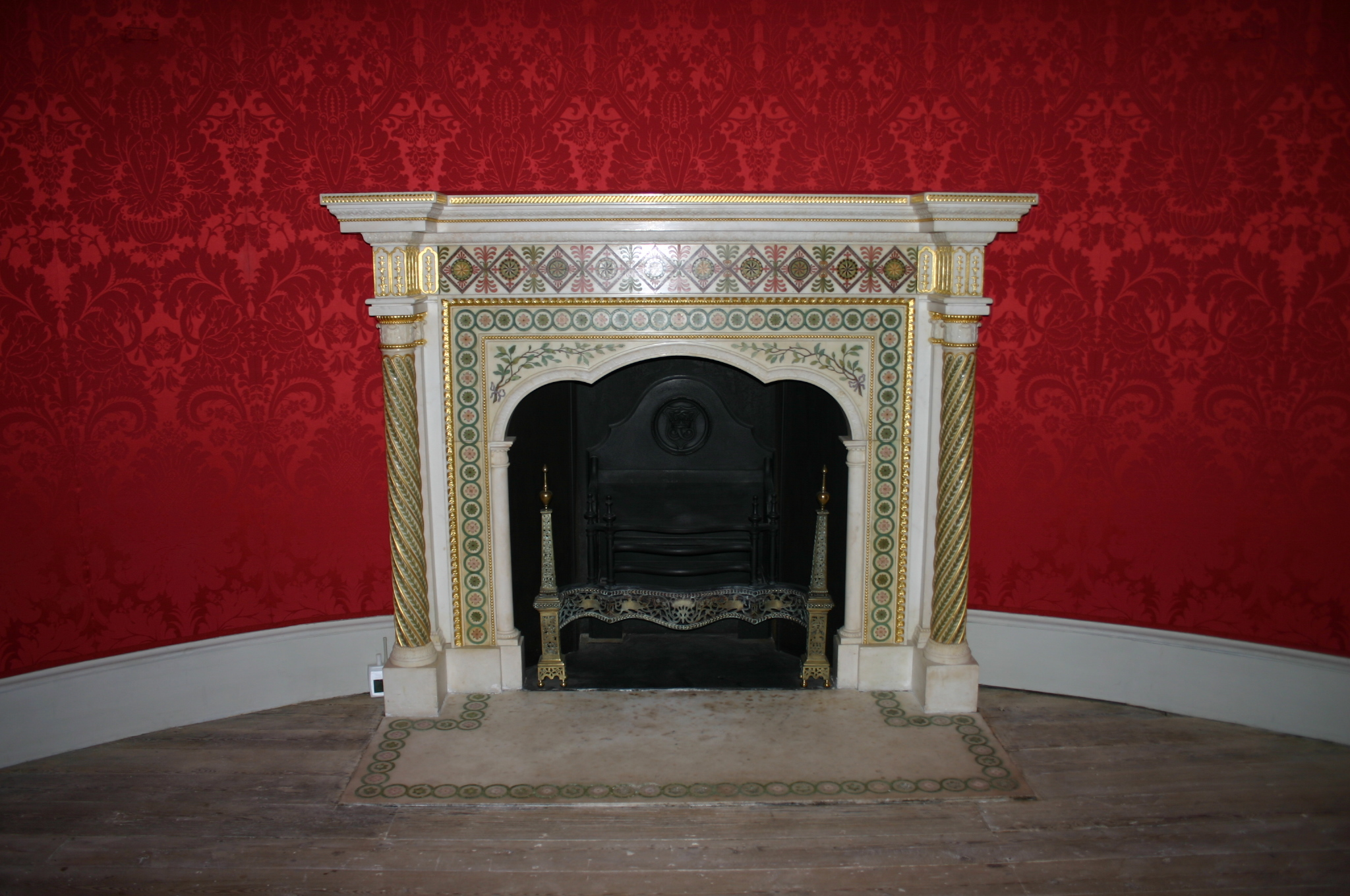 Robert Adams fireplace in the round room Strawberry Hill